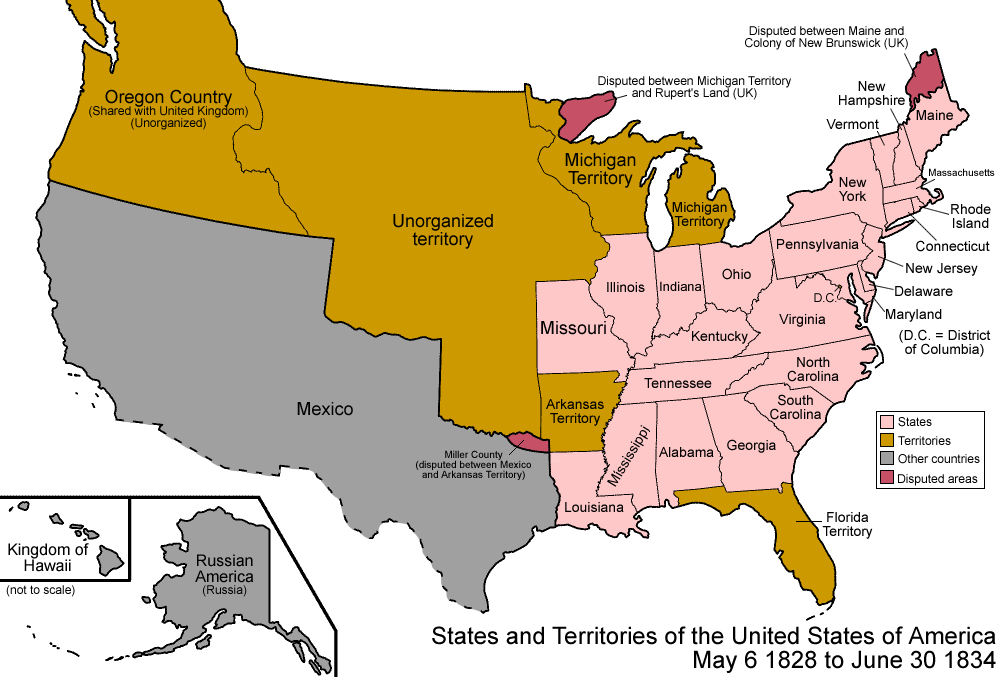 Map of the states and territories of the United States as it was from 1828 to 1834. On May 6 1828, Arkansas Territory was shrunk again, the remainder becoming unorganized. On June 30 1834, Michigan Territory was expanded into previously unorganized land.